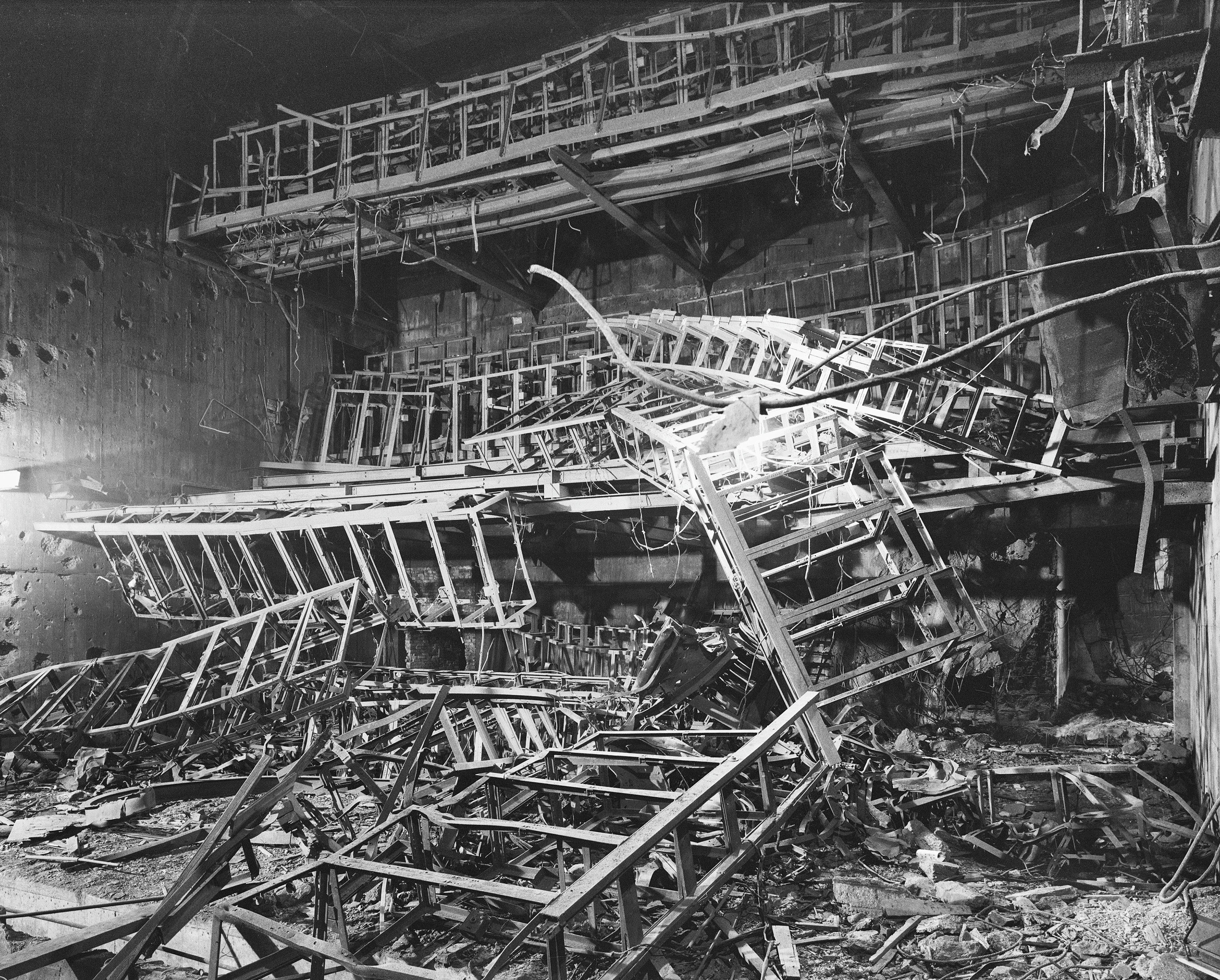 National Archives: former "German Bunker", interior